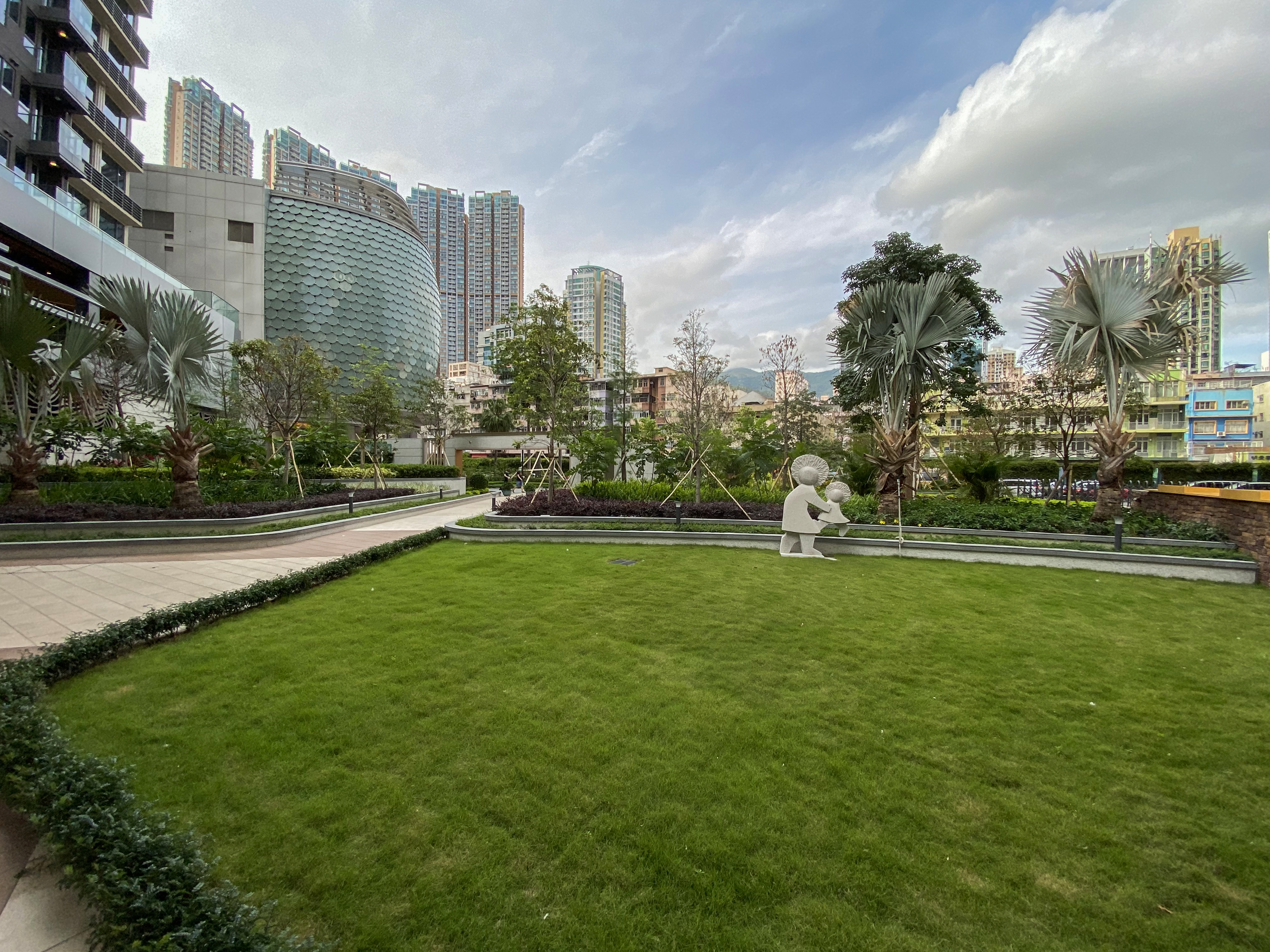 The Aurora Landscape Area